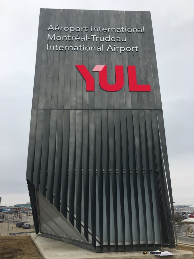 YUL and YMX: a new image for ADM Aéroports de Montréal (CNW Group/Aéroports de Montréal)